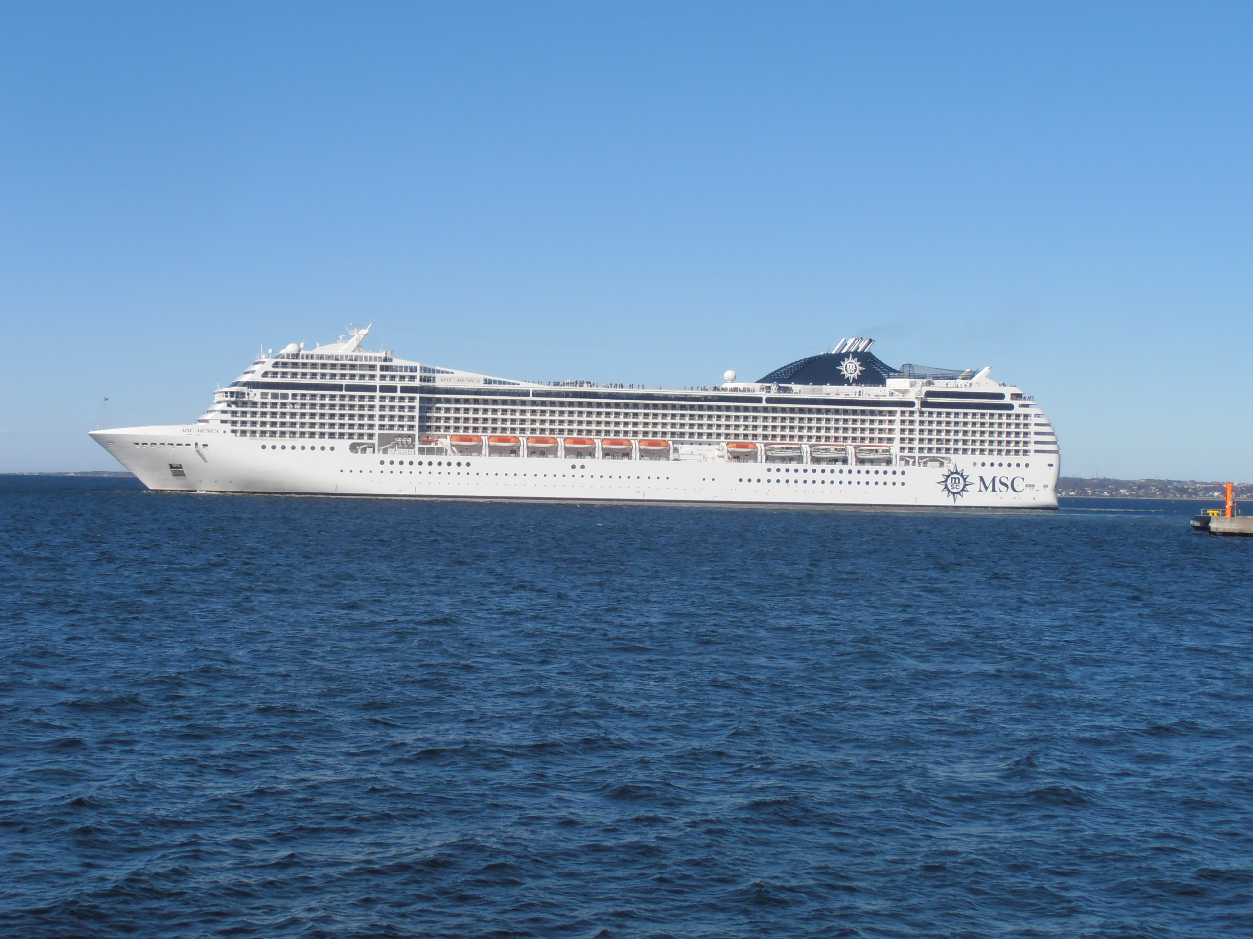 MSC Musica Port Side Tallinn 1 May 2013